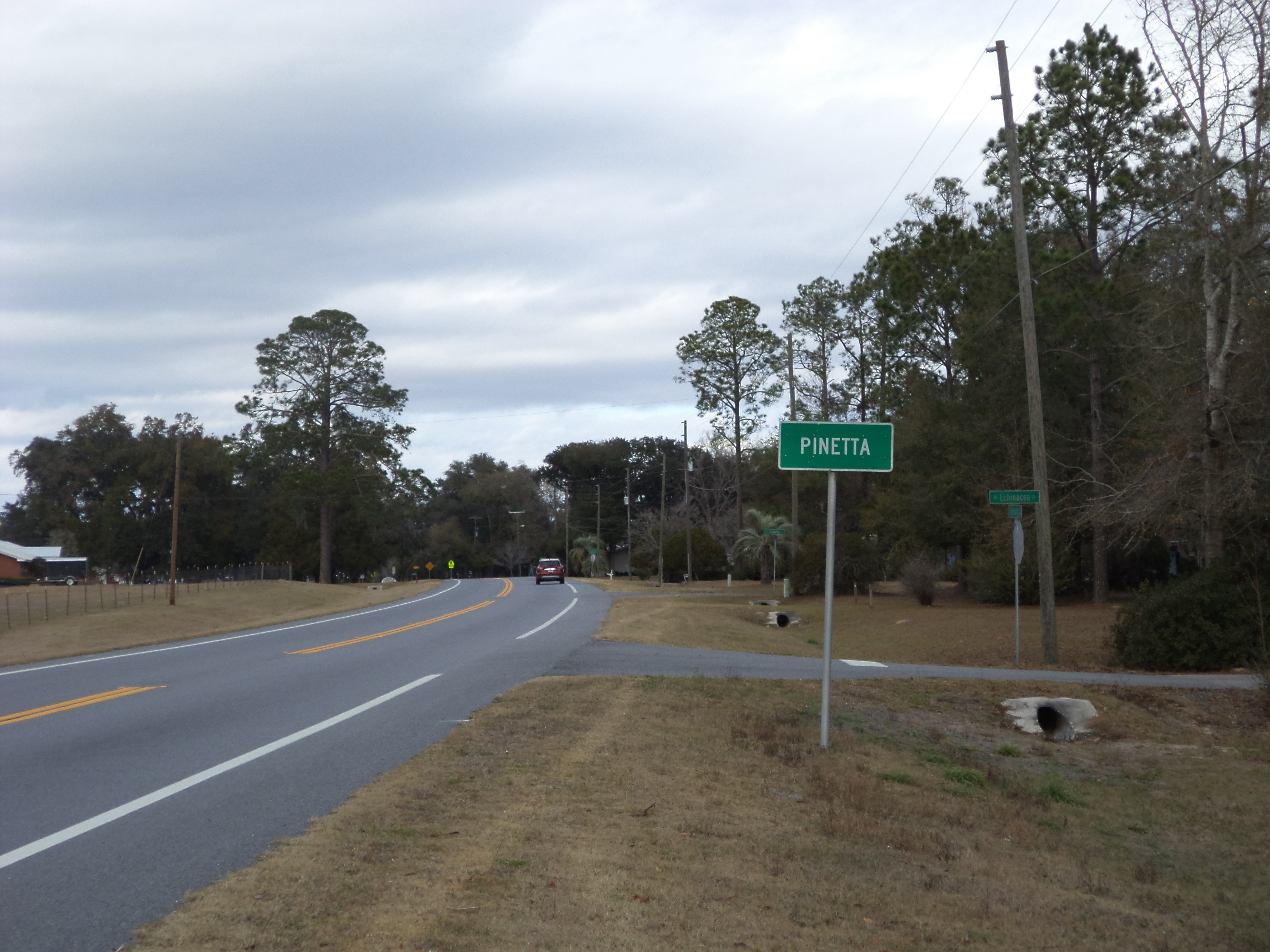 Pinetta Sign, Fl145 NB, Pinetta, Madison County, Florida